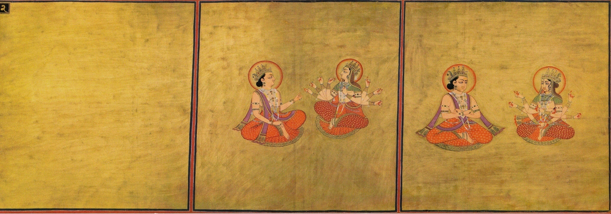 The Emergence of Spirit and Matter from the Shiva Purana. Marwar, 1828,Mehrangarh Museum Trust.